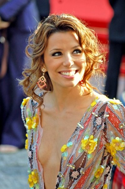 Eva Longoria at the Cannes Film Festival premiere of "El Laberinto del Fauno".